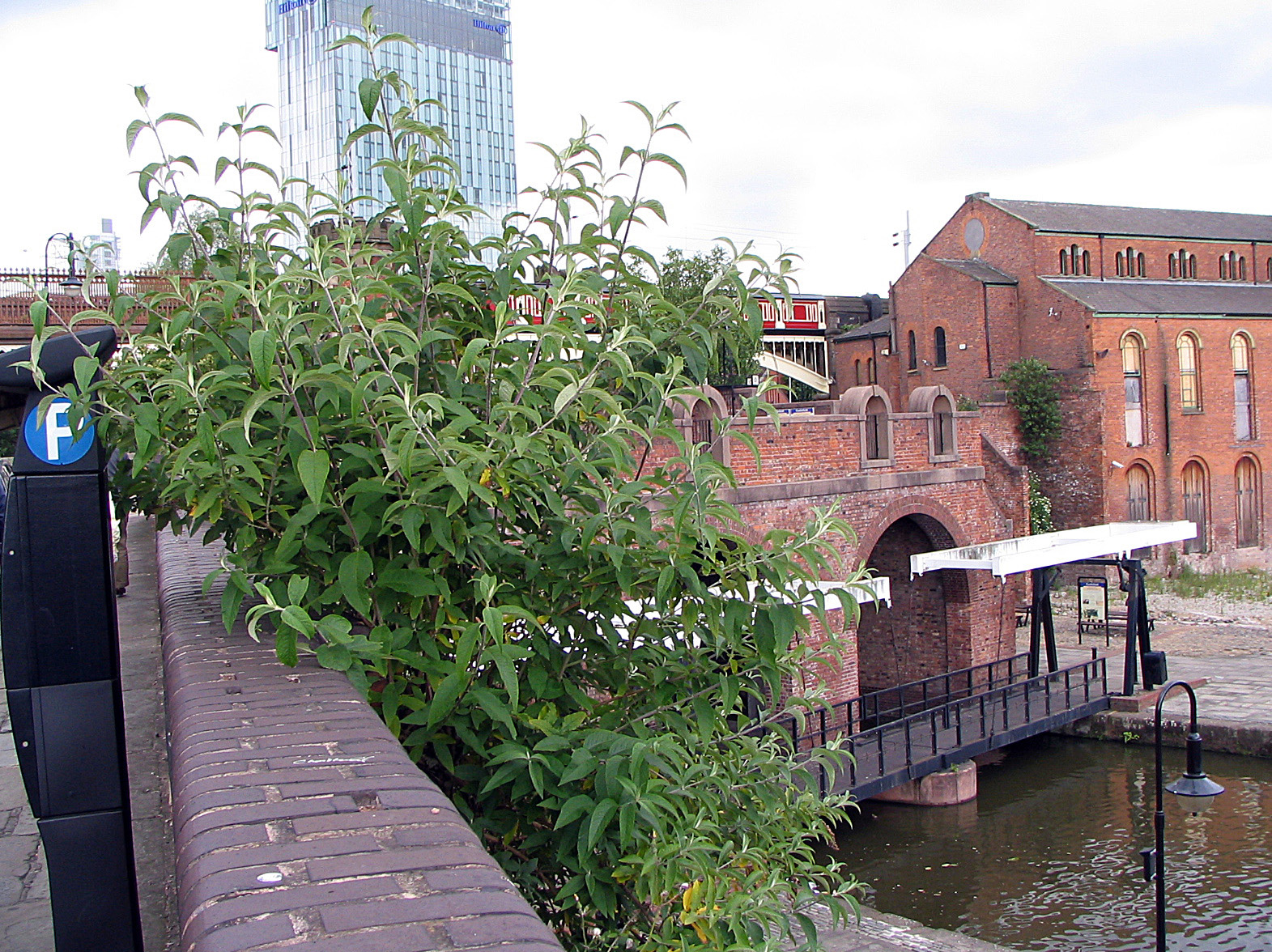 Buddleja davidii - spontaneously spreading in Manchester.